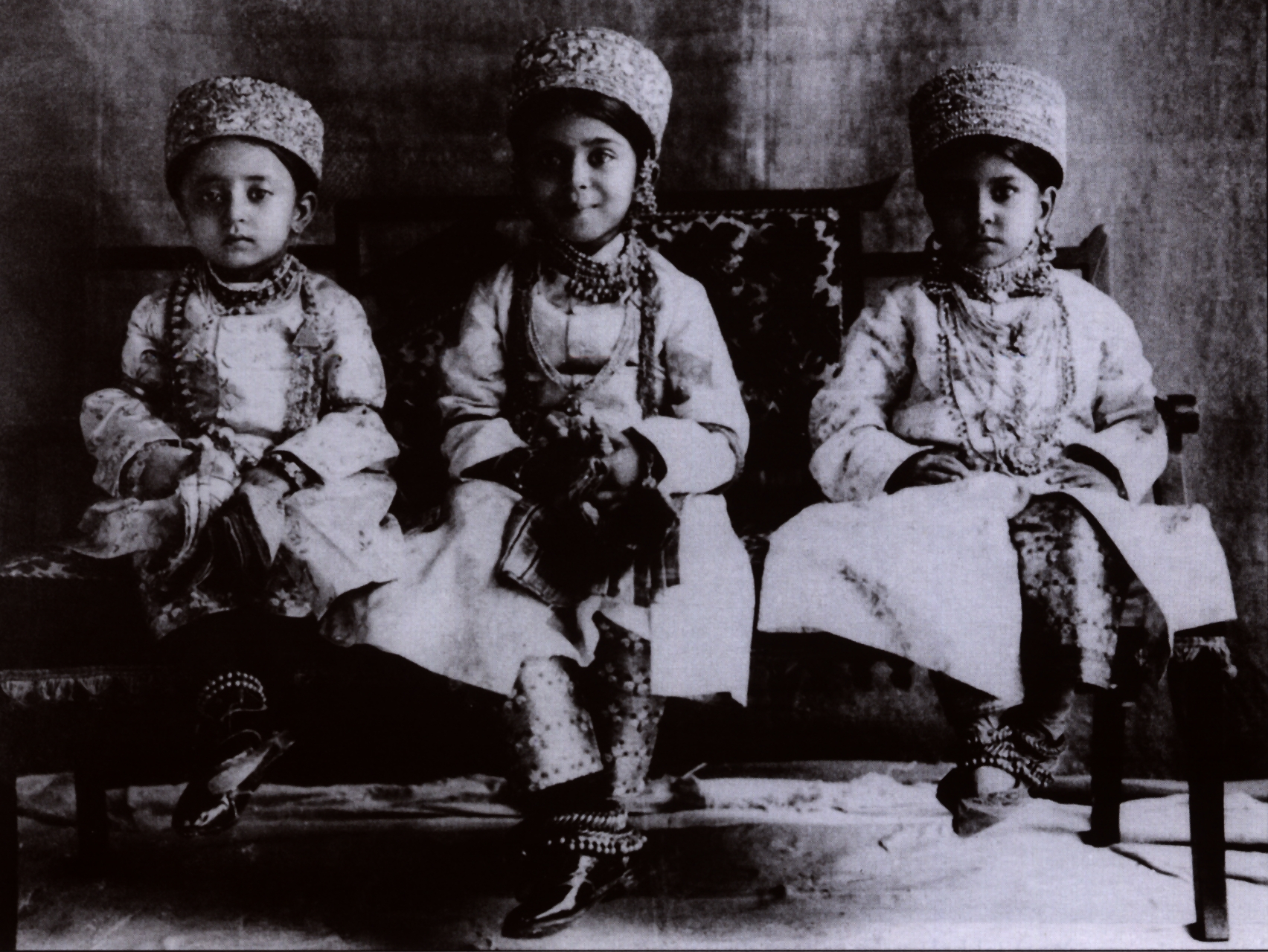 Three daughters of Kishen Pershad, the prime minister of Indian state of Hyderabad.